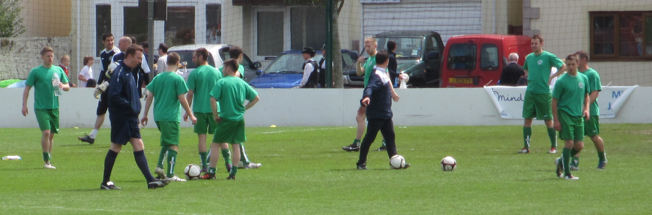 Muratti final at Springfield, Saint Helier, Jersey, between Jersey and Guernsey football teams, 7 May 2012 - pre-match warm-up